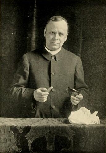 Fr. Carlos María Heredia, Exibits the "Tools of the Trade," n.d.